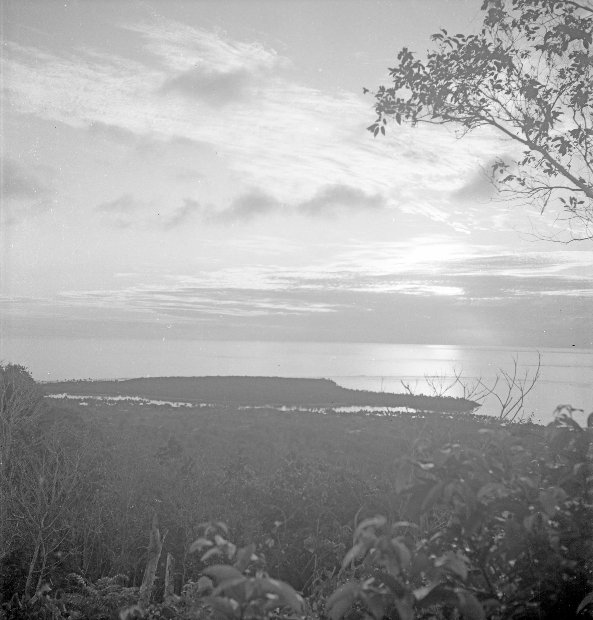 Hunganga islet seen from the central ridge of Niuatoputapu, Tonga (the small strait separating it from the main island is visible) Lea faka-Tonga: Ko Hunganga, i Niuatoputapu